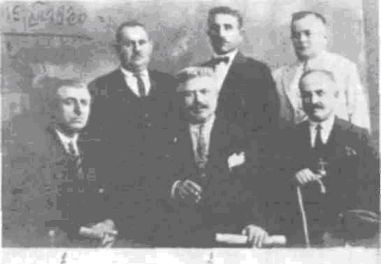 Grigor and Toma Bakrachev